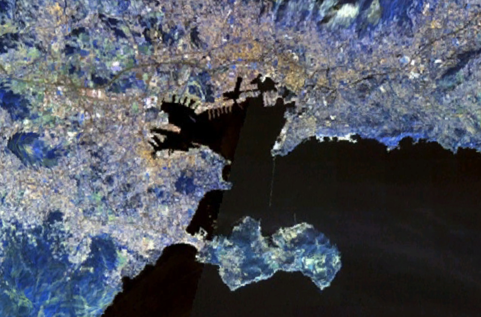 Toulon, France. Landsat7 artificial color satellite image.